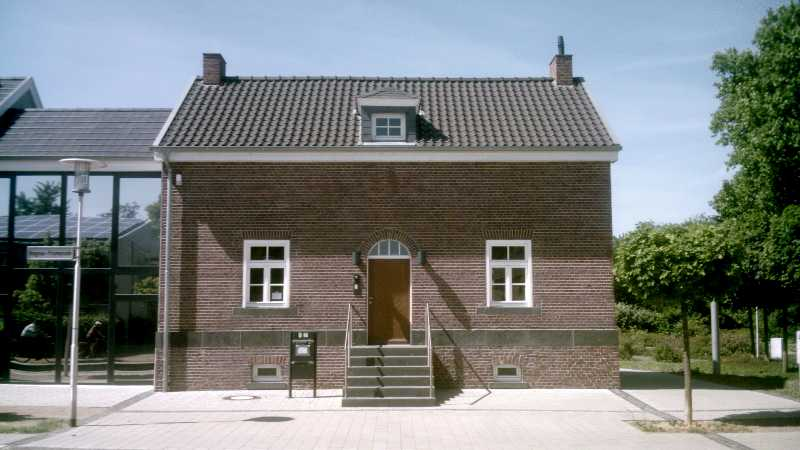 Bridge guard's house upon the former Grand Canal du Nord in Viersen, Germany.